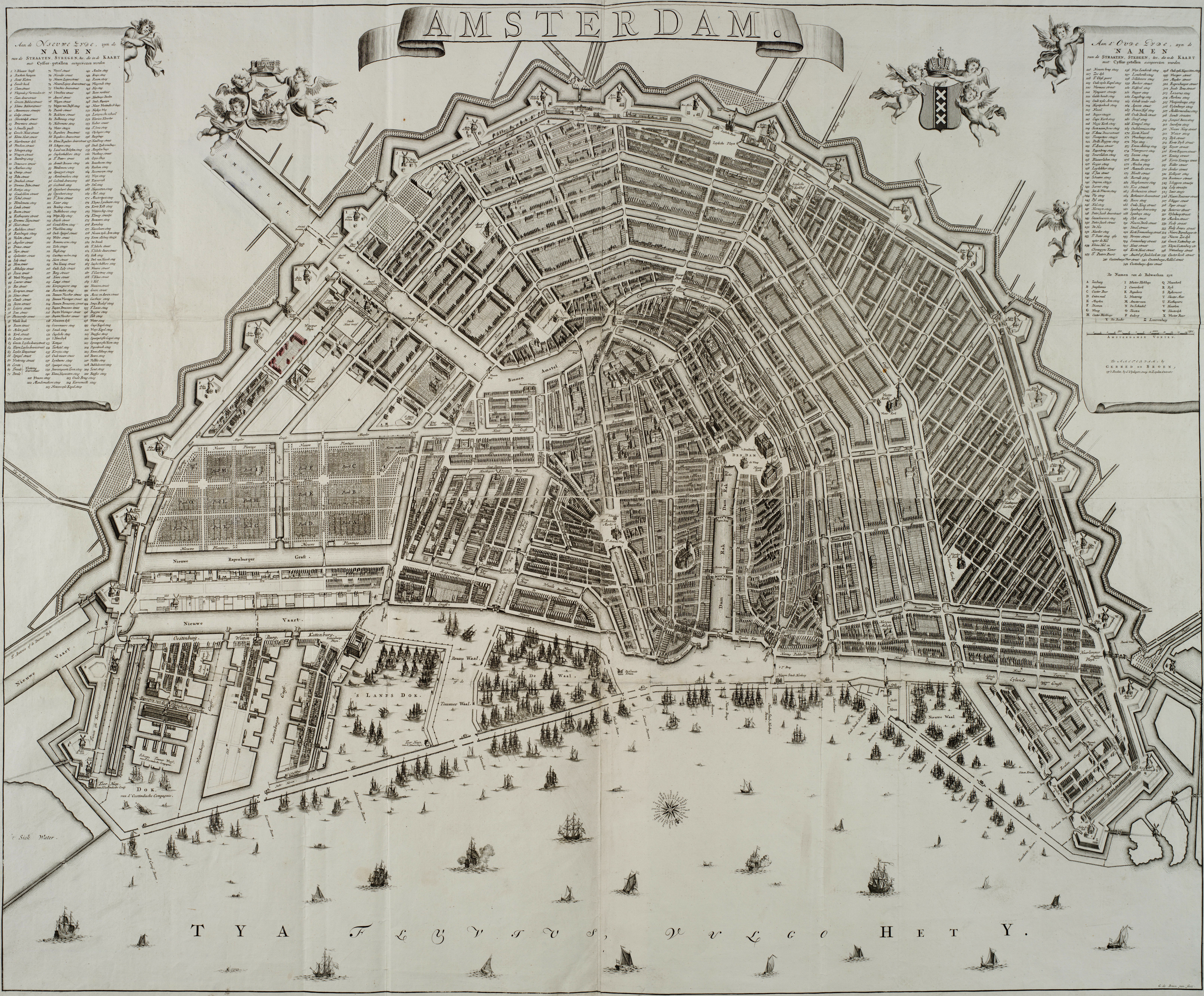 1737 map of Amsterdam by Gerrit de Broen.